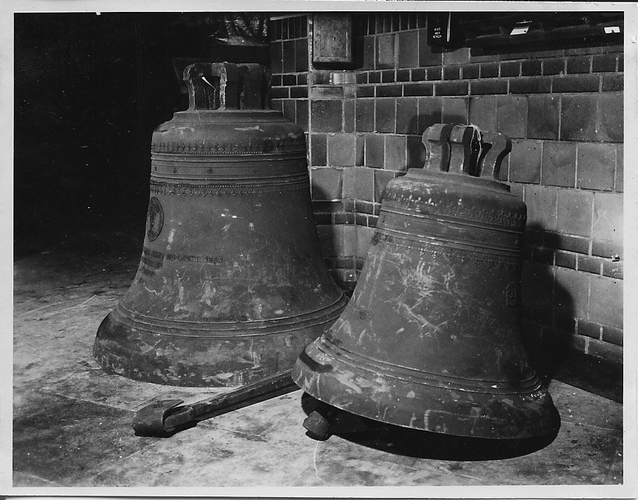 The clocks of the St. Jan church are waiting to be stolen by the German authorities in January 1943